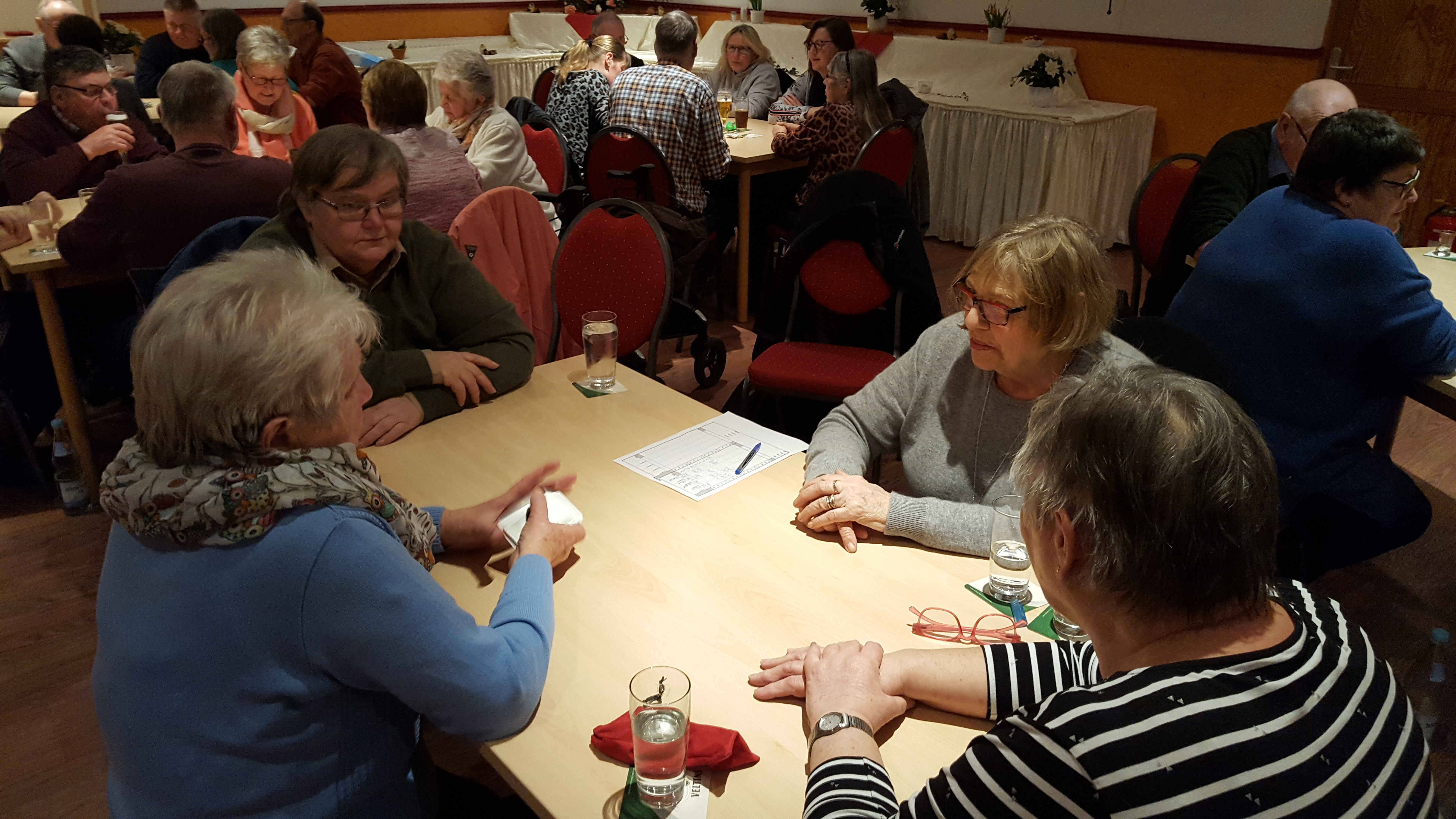 A game of Fipsen in progress during a local tournament in Großenaspe, Germany.